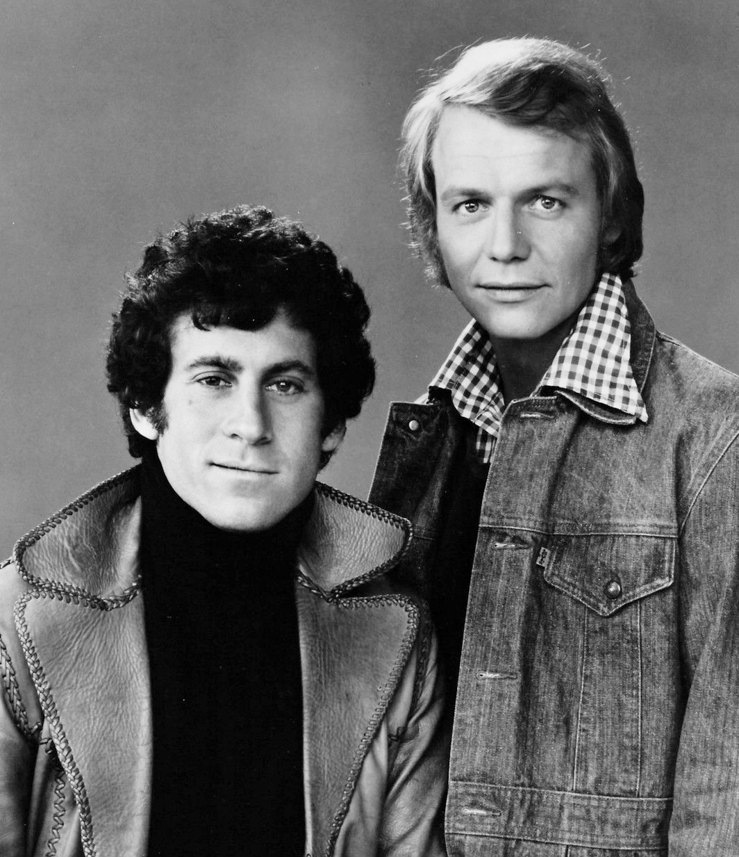 Photo of Paul Michael Glaser and David Soul from the television program Starsky and Hutch.